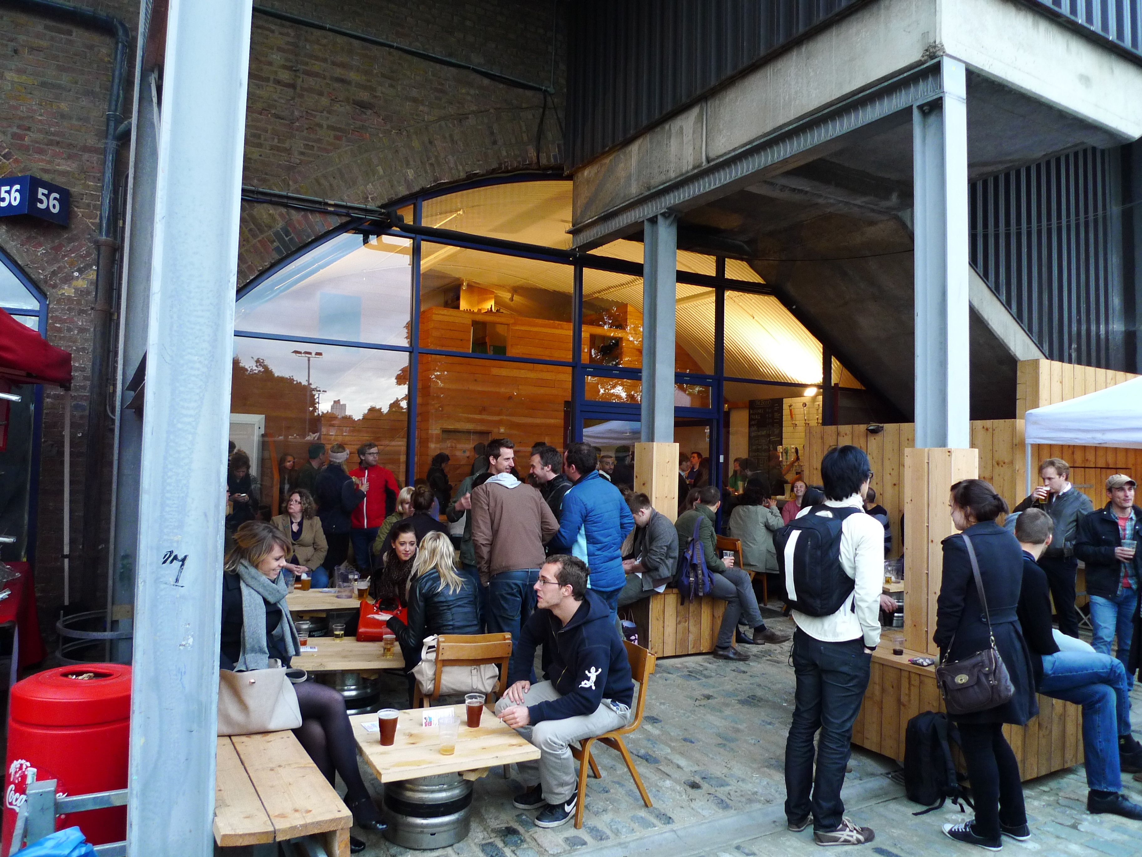 The brewery has been operating at this site around the back of Kentish Town West station for a few years, but they opened a bar in 2012. It's just open Fridays and occasional other days, so difficult to get a photo without huge numbers of people. It's under a railway arch though, basically. Address: 55-59 Wilkin Street Mews. Owner: Camden Town Brewery (website). Links: The Kentish Towner